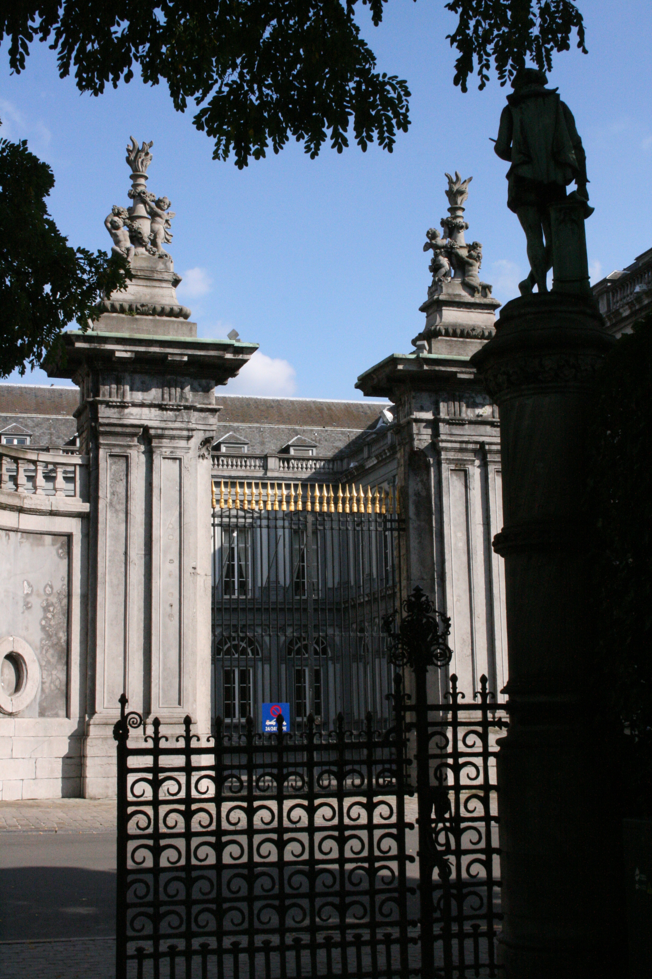 Egmont Palace, Brussels (Belgium)